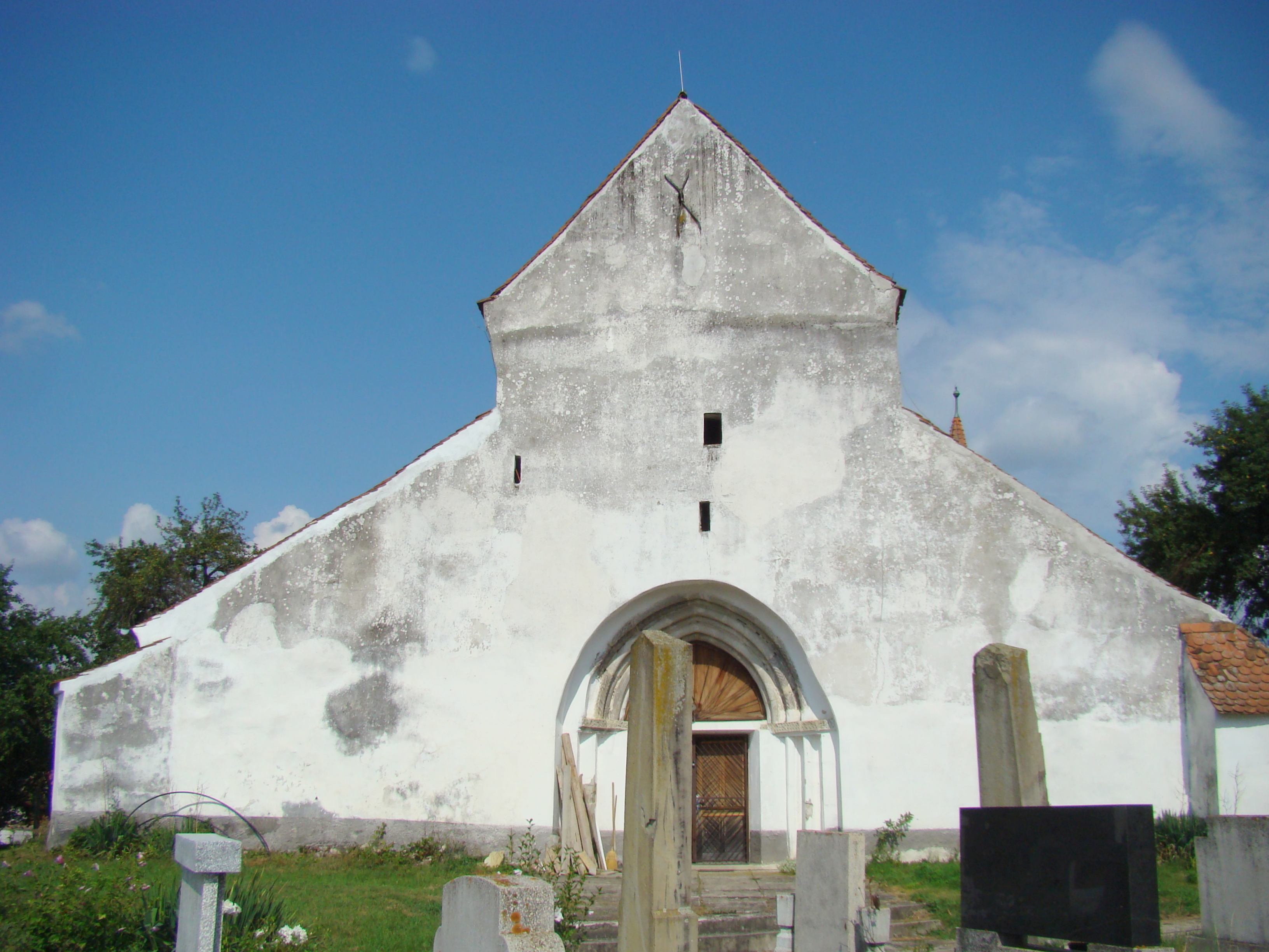 Lutheran church in Hălmeag, Brașov County, Romania